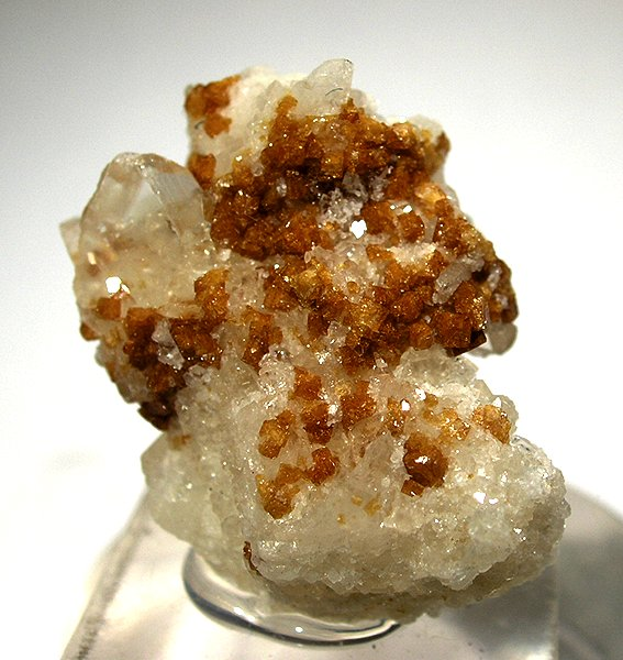 Svanbergite, Dolomite Locality: Mount Brussilof mine (Bay Mag Mine), Radium Hot Springs, Golden Mining Division, British Columbia, Canada (Locality at ) A very pretty and richly crystallized specimen of this rare species, with sharp cubic 1mm-plus crystals on contrasting matrix of sparkling white dolomite! In person, this is a very colorful and showy piece, aside from the rarity, and is of display quality 3 x 2.5 x 2.1 cm